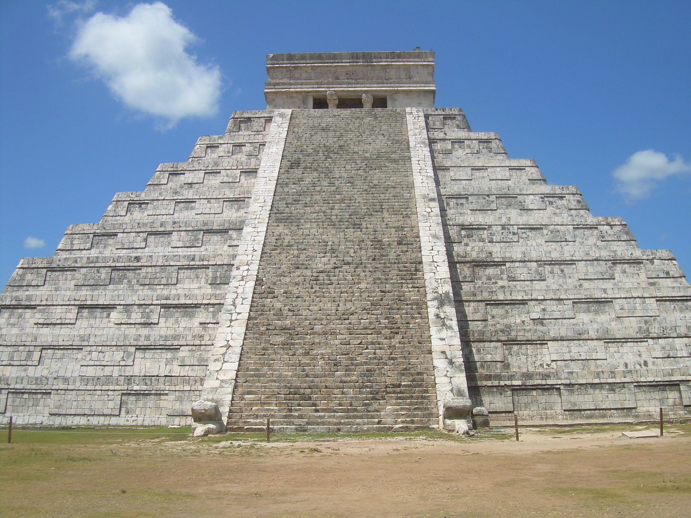 north side of El Castillo.